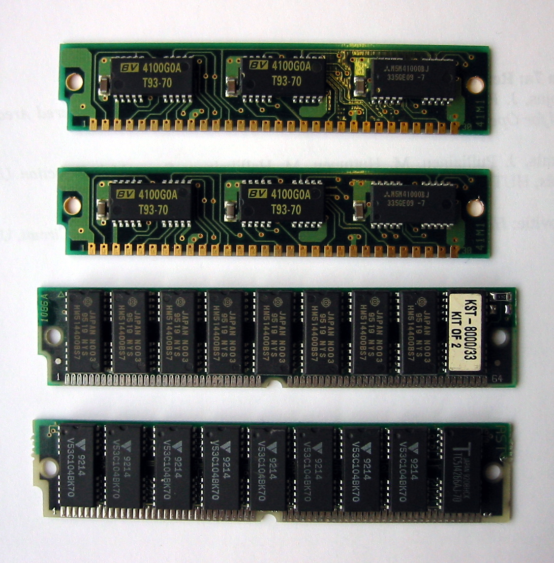 RAM SIMMs, 30-pin and 72-pin